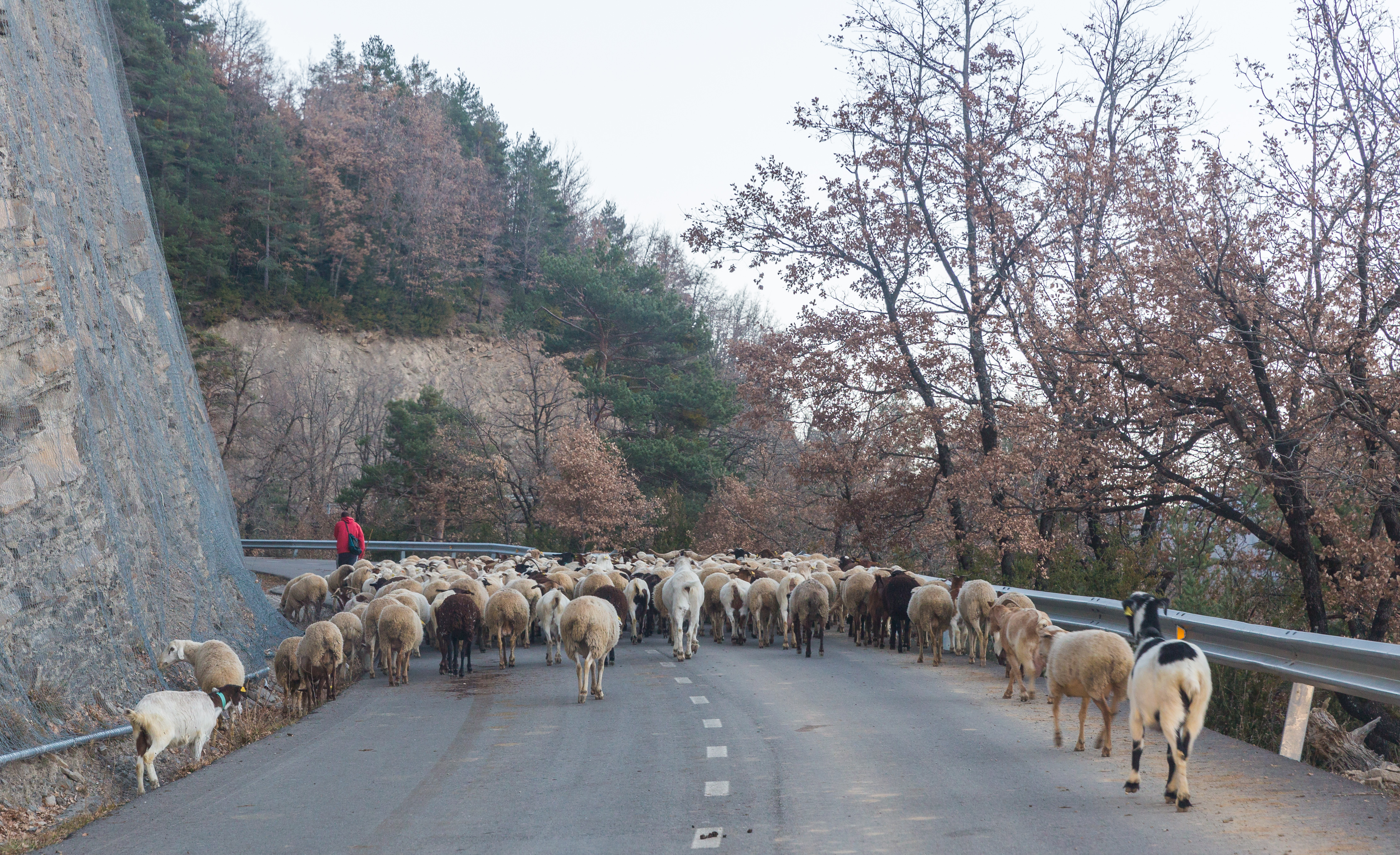 Flock of sheep near Buesa, Huesca, Spain